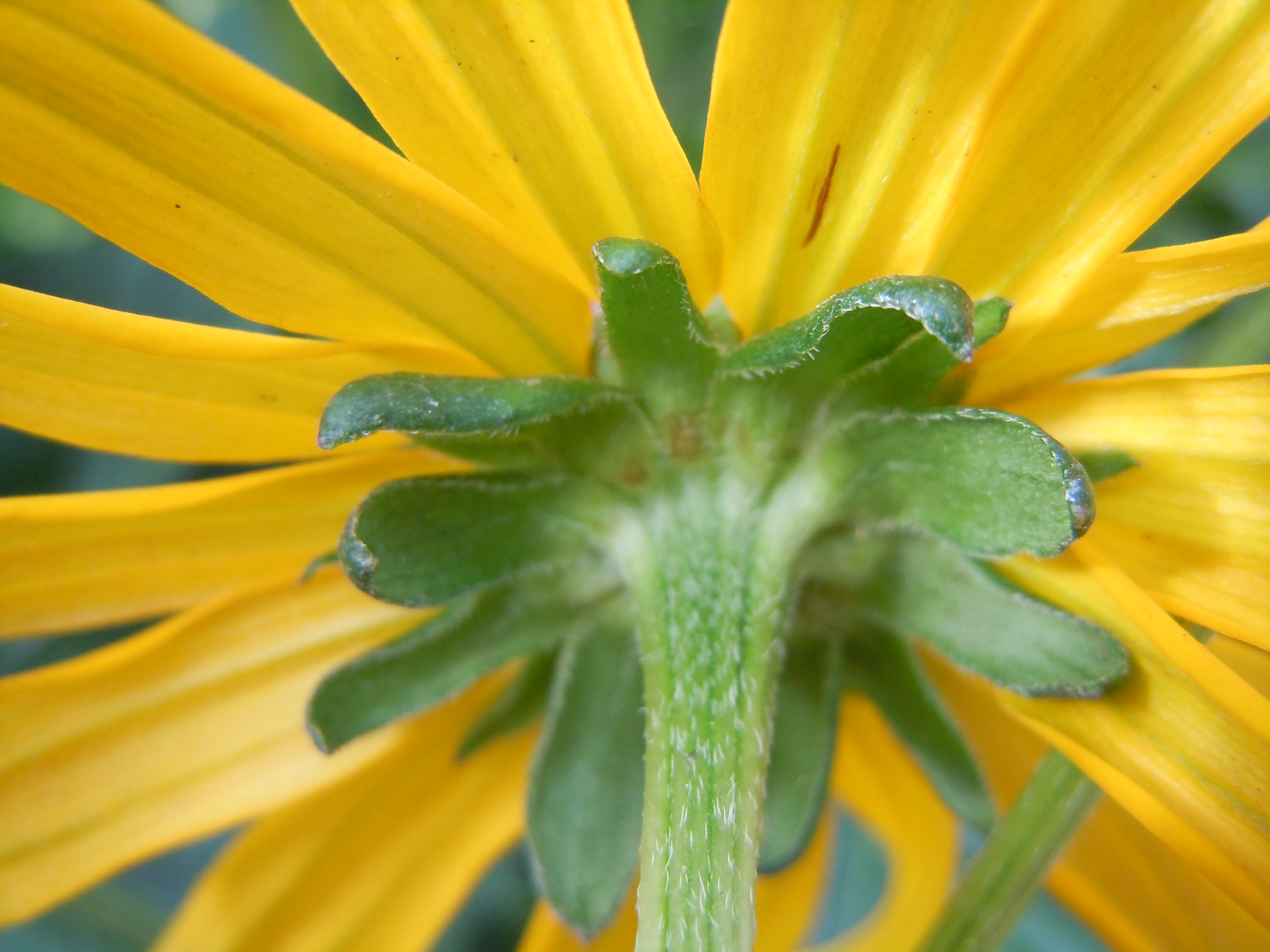 The involucral bracts are of variable lengths but somewhat strap-shaped and blunt.